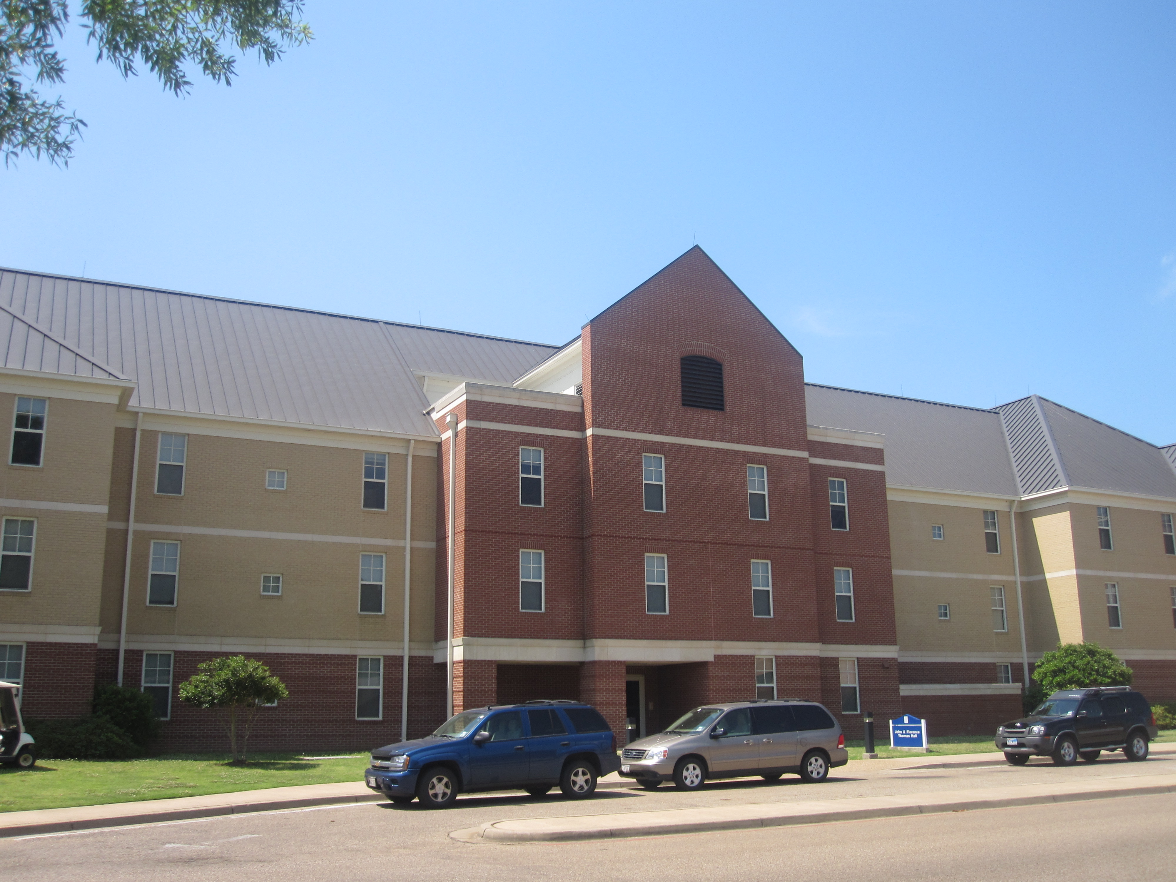 I took photo in Longview with a Canon camera.